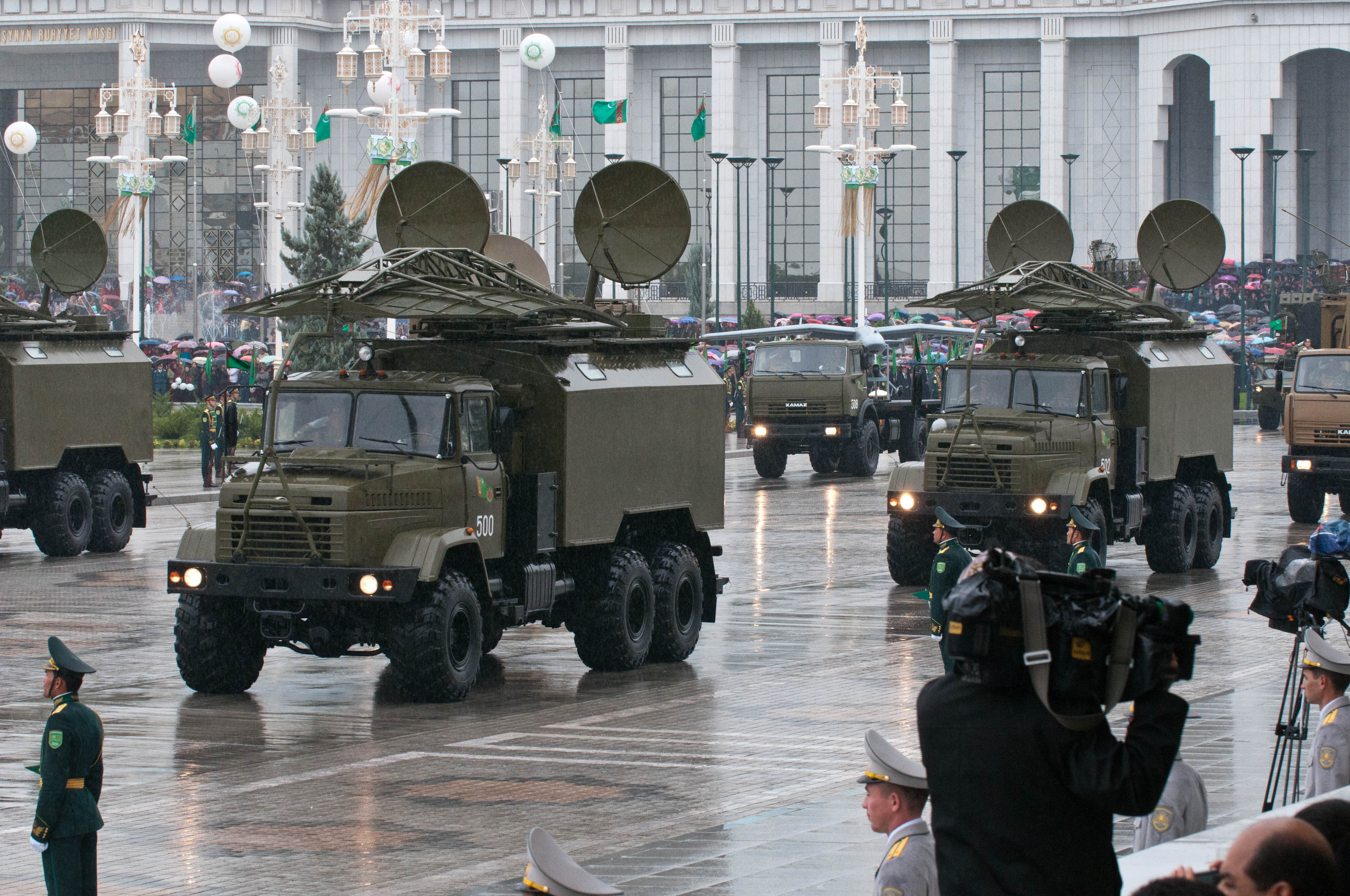 Celebrating the 20th year of independence in Turkmenistan